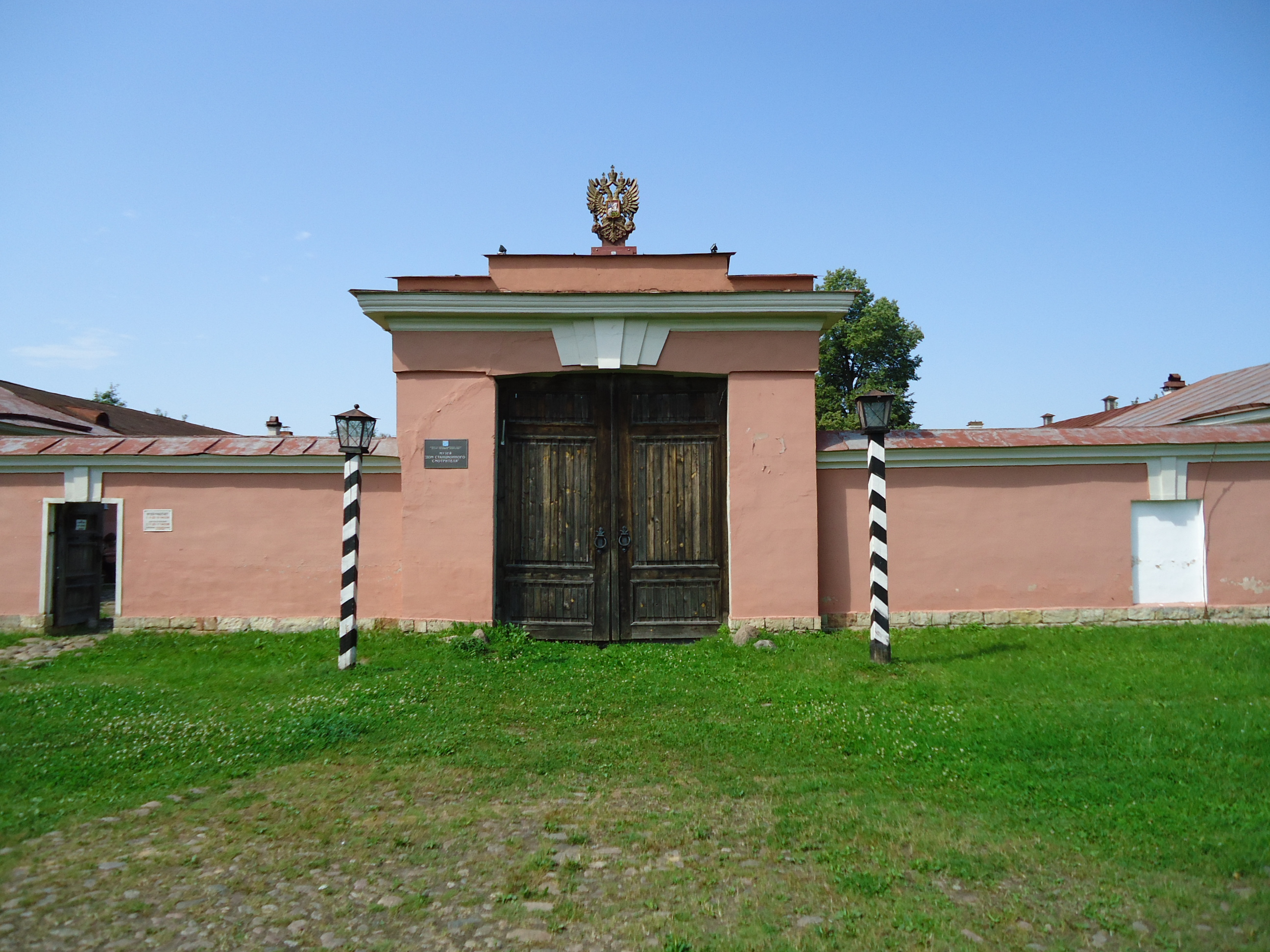 House of The Station Master. Museum in Vyra, Leningrad Oblast, Russia.